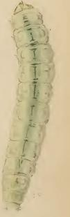 Stainton’s Natural History of the Tineina (1855–1873): Caloptilia hemidactylella